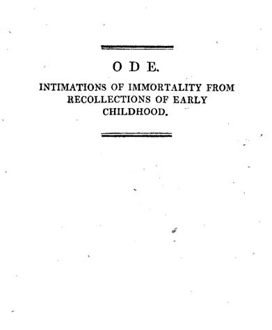 Google books. Poem's title page from volume two, cropped and joined onto one image by User:Ottava Rima.